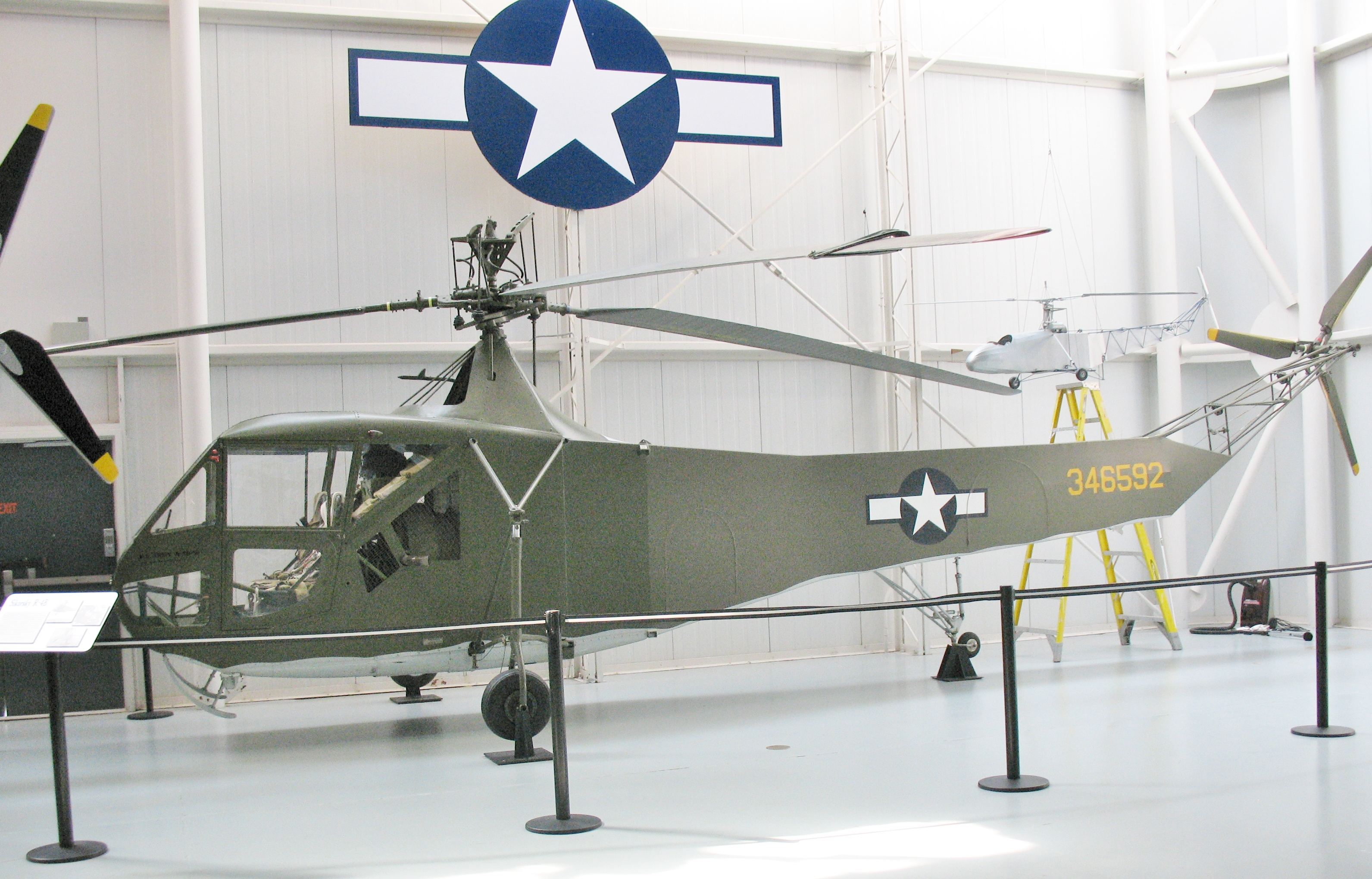 Sikorsky R-4B (43-46592) at U.S. Army Aviation Museum, Fort Rucker, (AL) (USA)